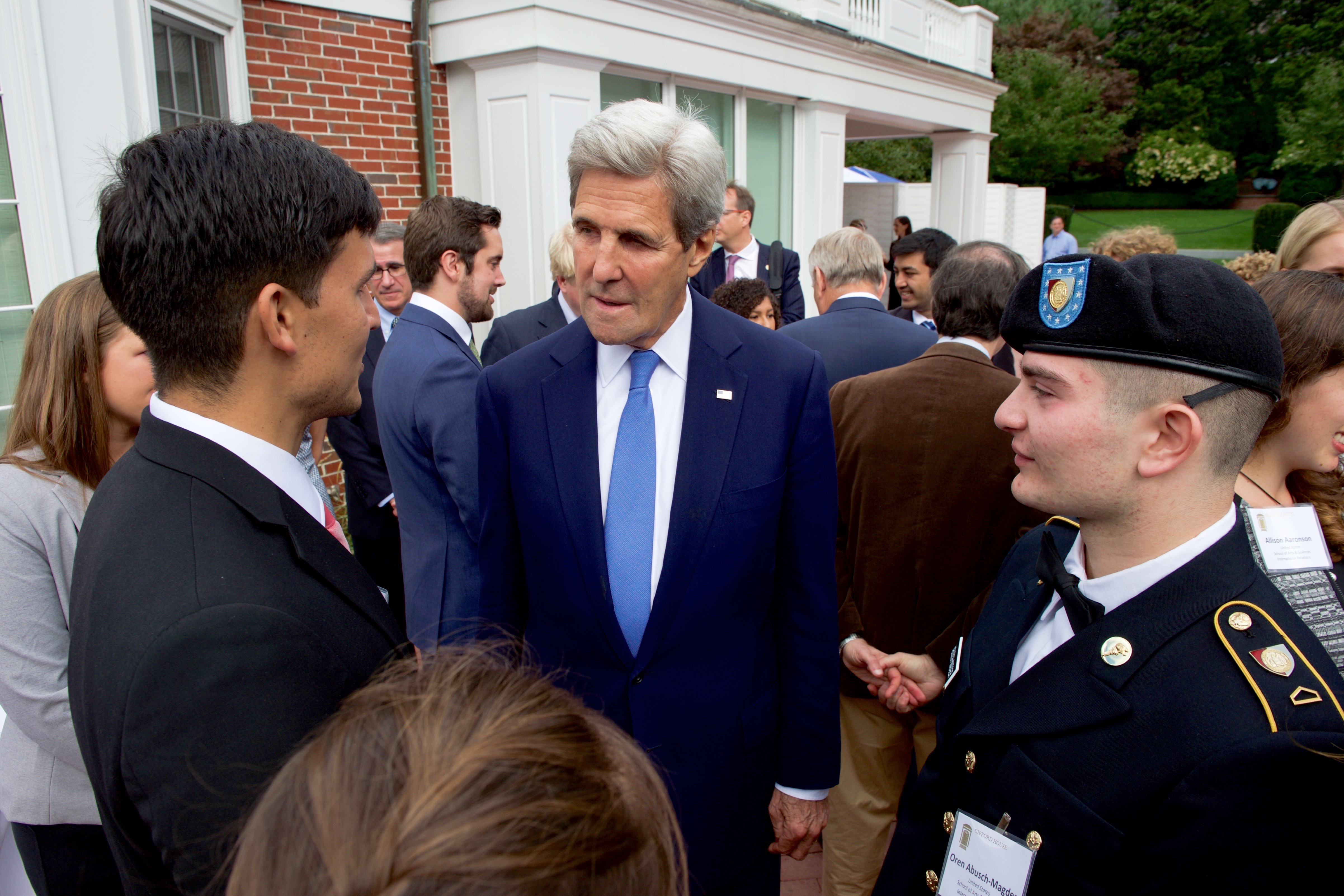 U.S. Secretary of State John Kerry chats with students from the Fletcher School of Law and Diplomacy and Tisch College on September 24, 2016, at Gifford House on the campus of Tufts University in Medford, Mass., before a meeting with the Quintet ministers from the United Kingdom, France, Germany, Italy, and the European Union. [State Department photo/ Public Domain]